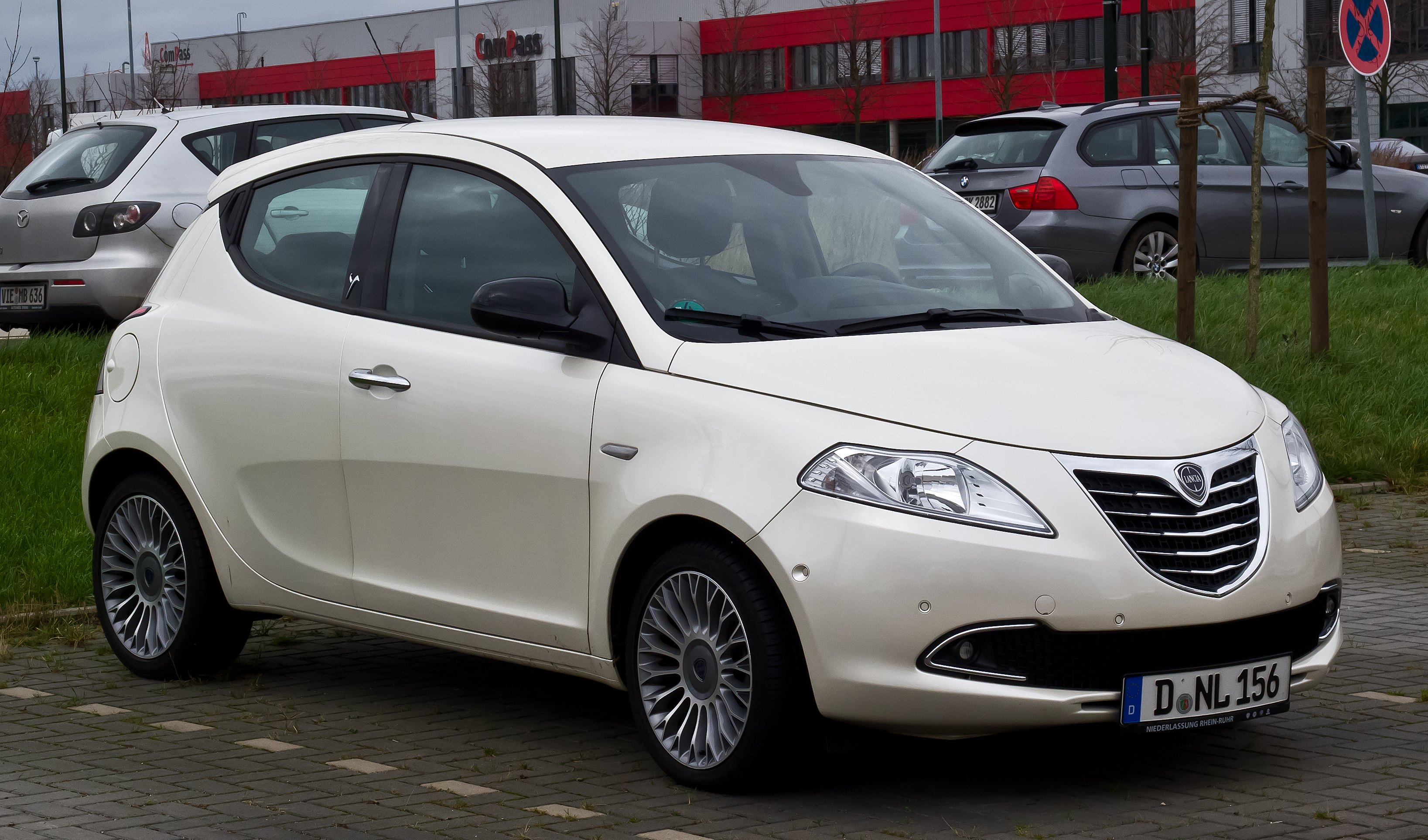 Lancia Ypsilon 0.9 TwinAir Turbo 8v Platinum (II)